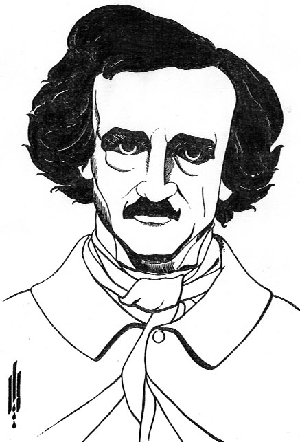 Drawing by Aubrey Beardsley (1872-1898) of Edgar Allan Poe.